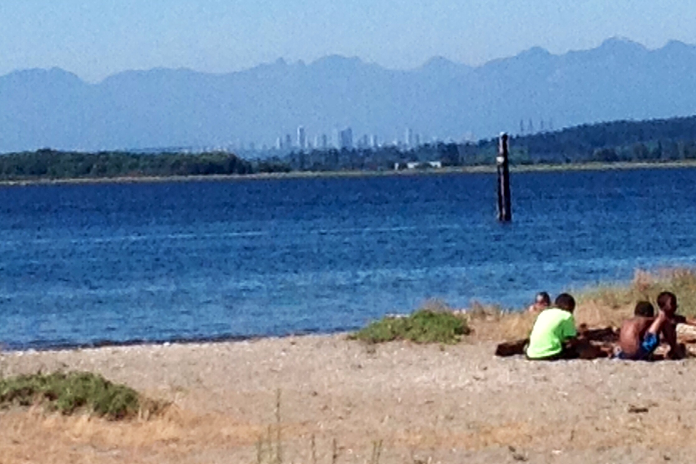 North-facing view of Mud Bay from Blackie Spit in Crescent Beach, Surrey, British Columbia. Skyscrapers in New Westminster and North Shore Mountains are visible in far background.